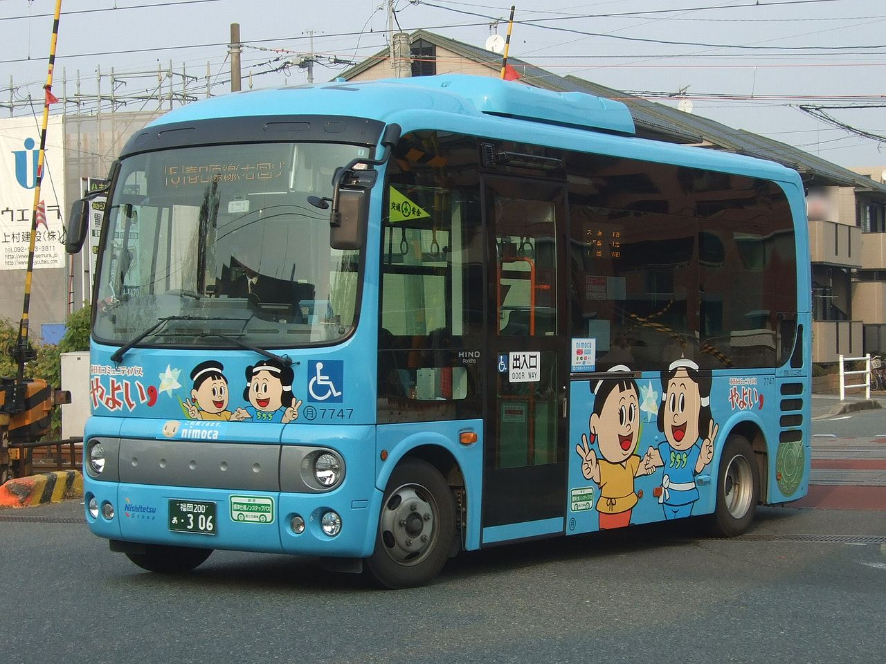 Kasuga City Community Bus “Yayoi”